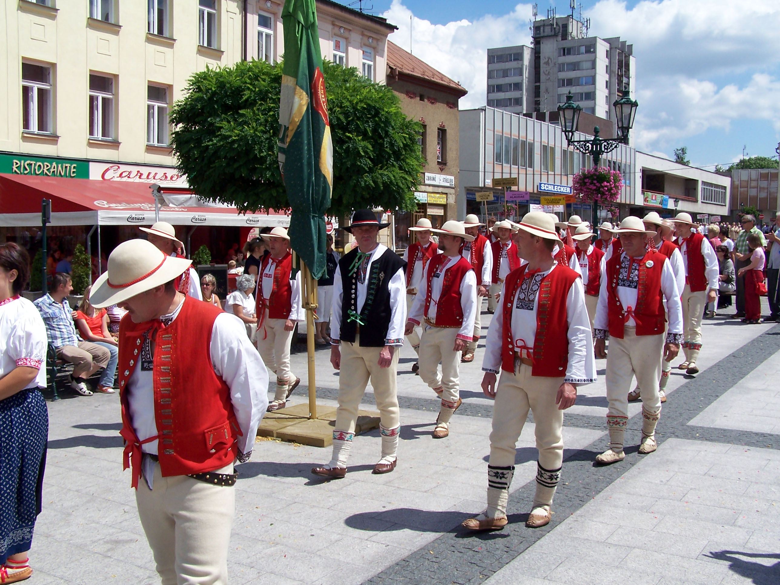 Gorol men's choir from Jabłonków during the parade at the beginning of the Jubileuszowy Festiwal PZKO 2007 in Karwina